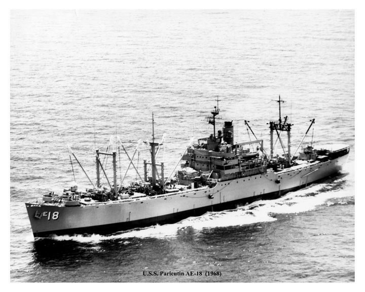 The U.S. Navy ammunition ship USS Paricutin (AE-18) underway, in 1968.